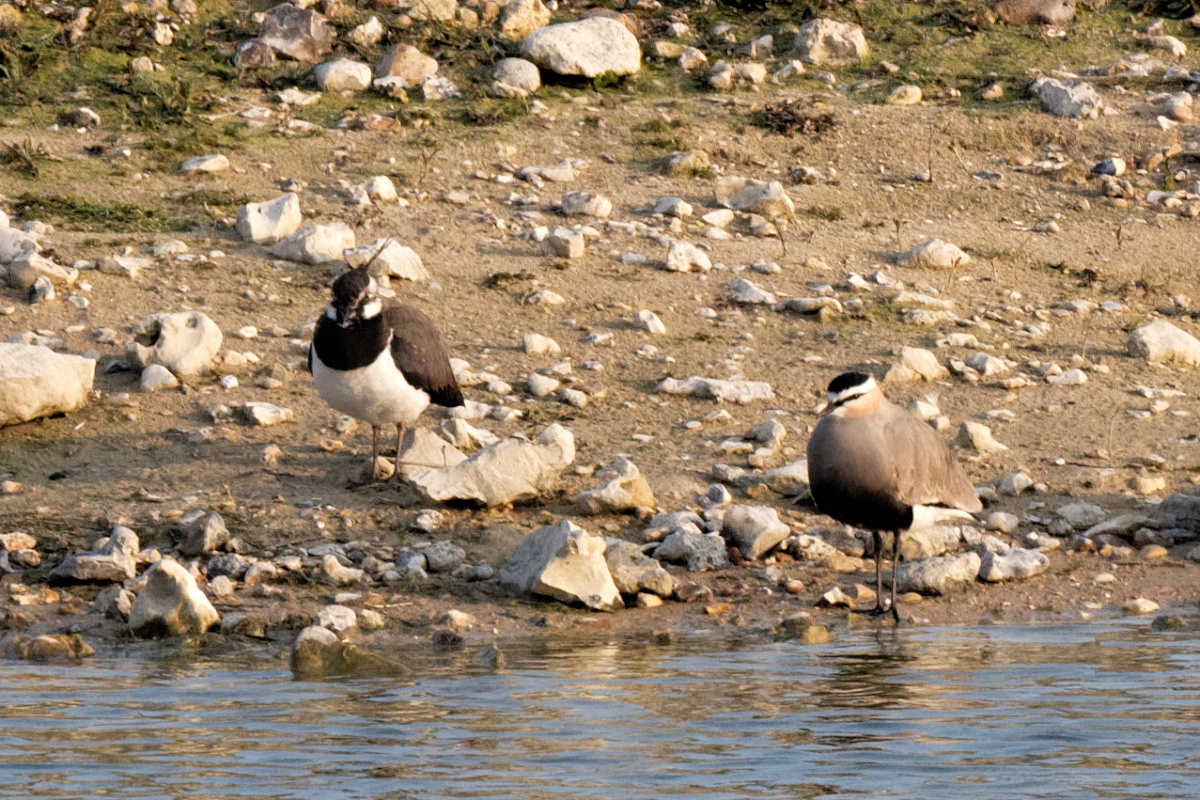 A Sociable Lapwing (Vanellus gregarius, right) with a Northern Lapwing (Vanellus vanellus) in a gravel pit at Saint-Martin-la-Garenne, near Paris, France. First spotted by Jean-Michel Fenerole, accepted by the French Birds Rarities Committee.